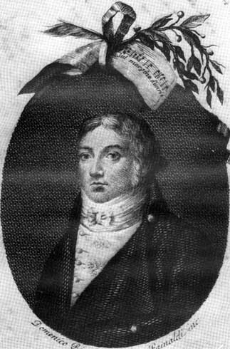 Ritratto di Giuseppe Moneta. Frontespizio delle Due Sonate per Pianoforte con accompagnamento di Violino (Firenze 1790 ca.)